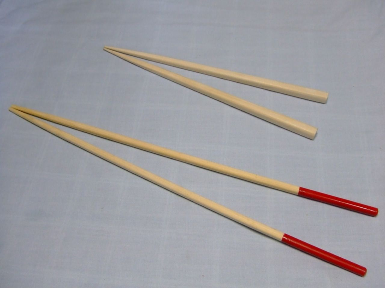 A pair of saibashi, a chopsticks used for cooking. To compare its size, normal chopsticks (hashi) is laid with saibashi.